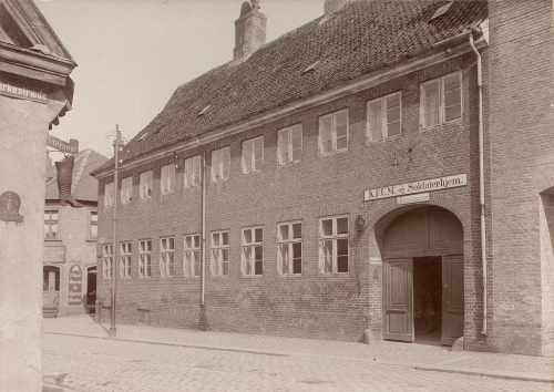 Liebes Gård in Roskilde, Denmark